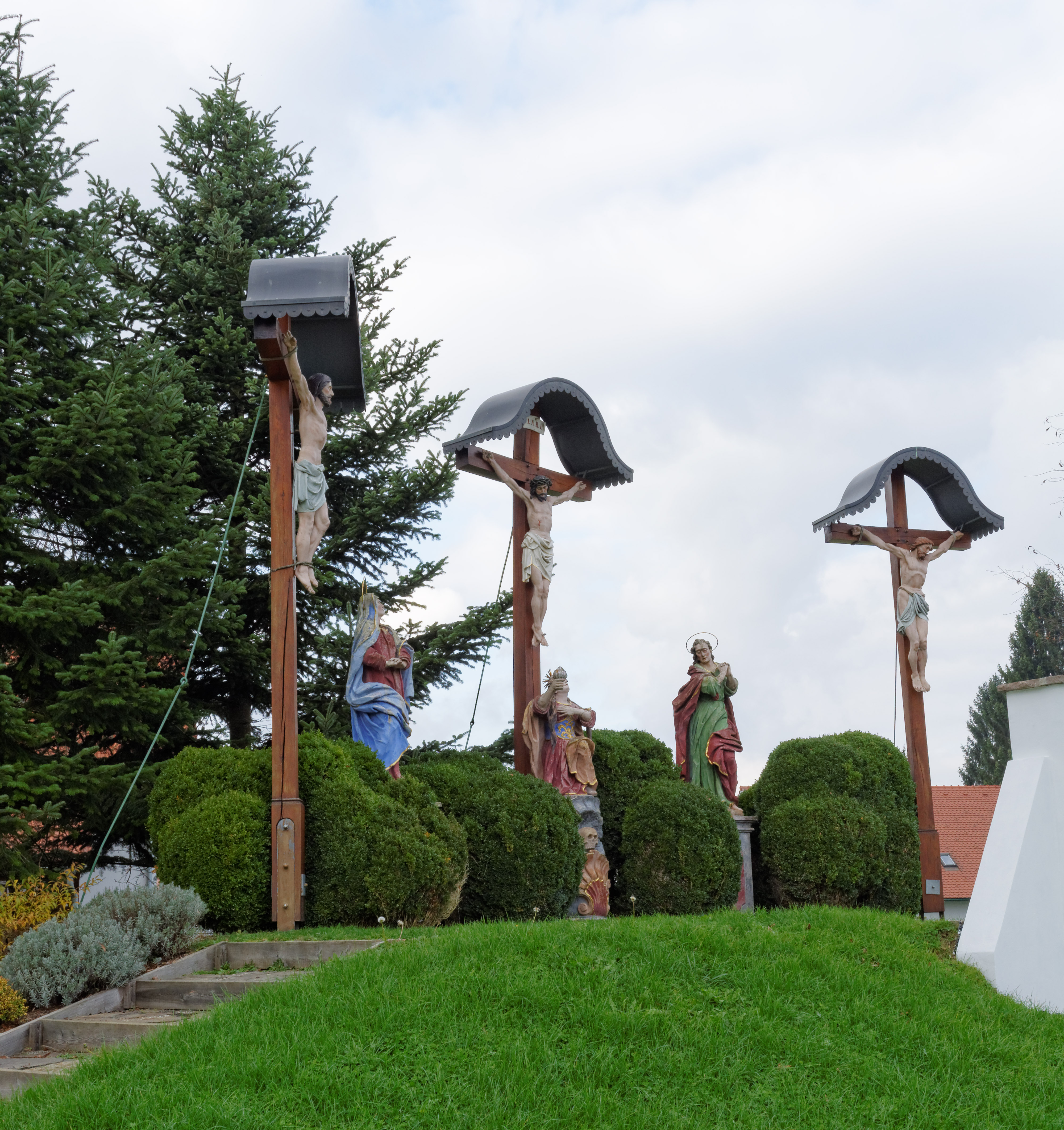 Calvary in Heiligenkreuz am Waasen, Styria, Austria